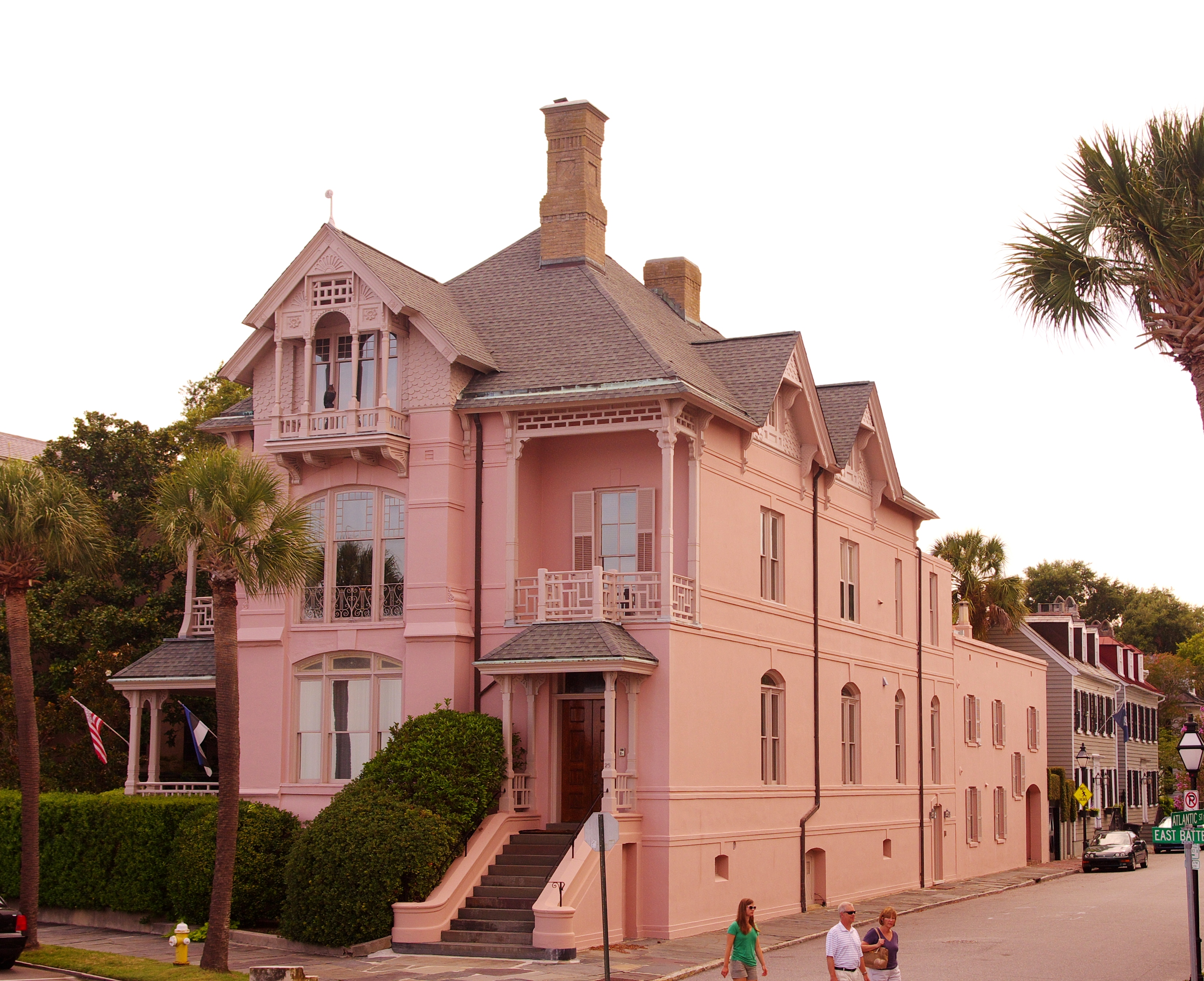 The Charles Drayton House at 25 East Battery in Charleston, South Carolina. This house was built in 1885, and designed by architect W.B.W. Howe.